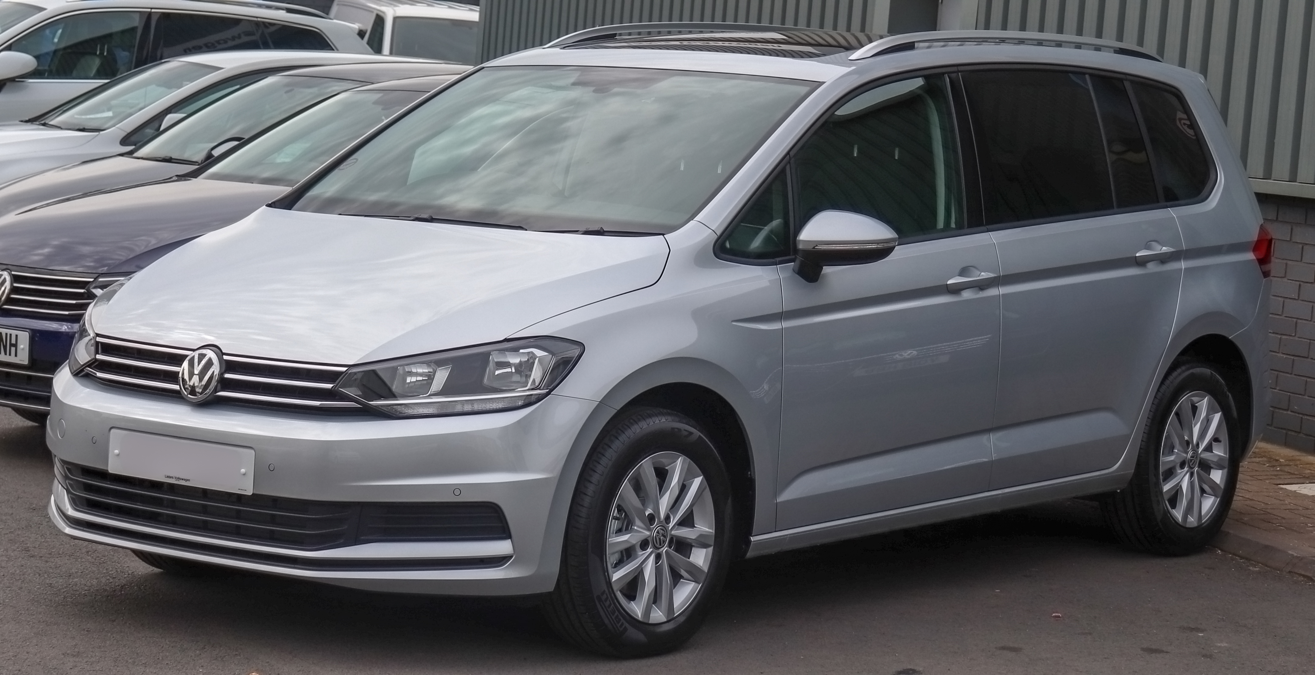 2018 Volkswagen Touran 1.6 Taken in Stratford-upon-Avon